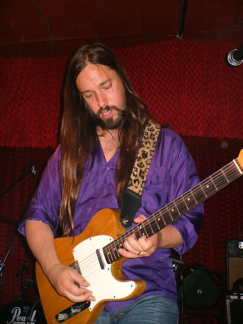 Rob Baker - Playing with Stripper's Union Local 518. Taken from the front row by myself.